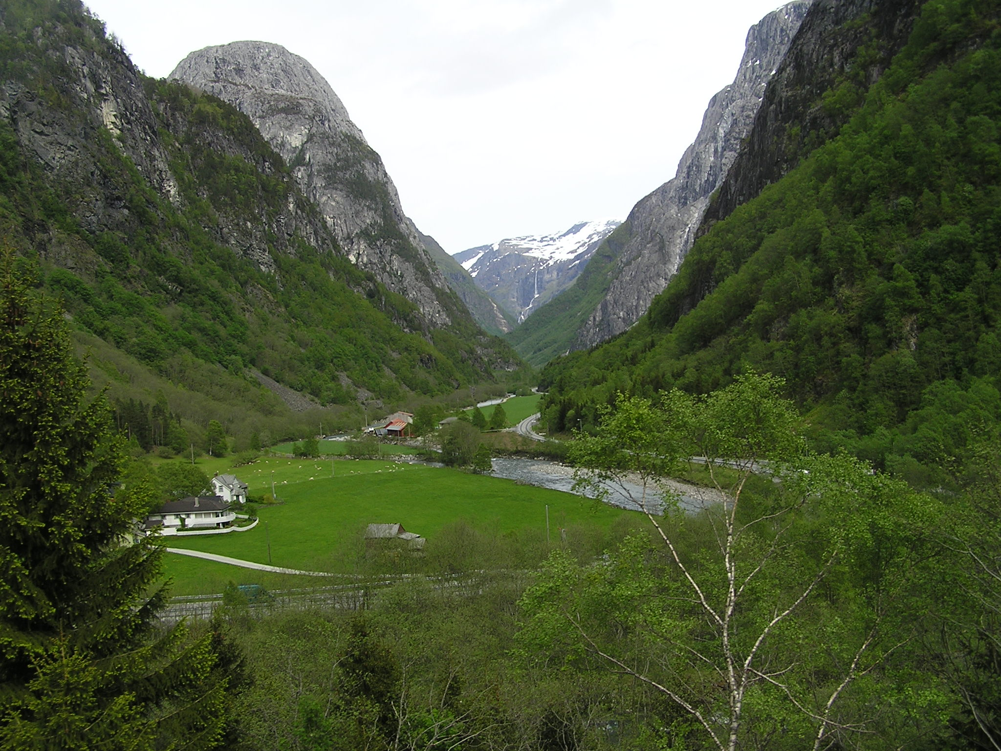 View east from Stalheimskleivi towards Nærøydalen and Jordalsnuten